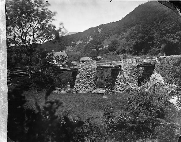 1 negative : glass, wet collodion, b&w ; 10 x 12.5 cm.